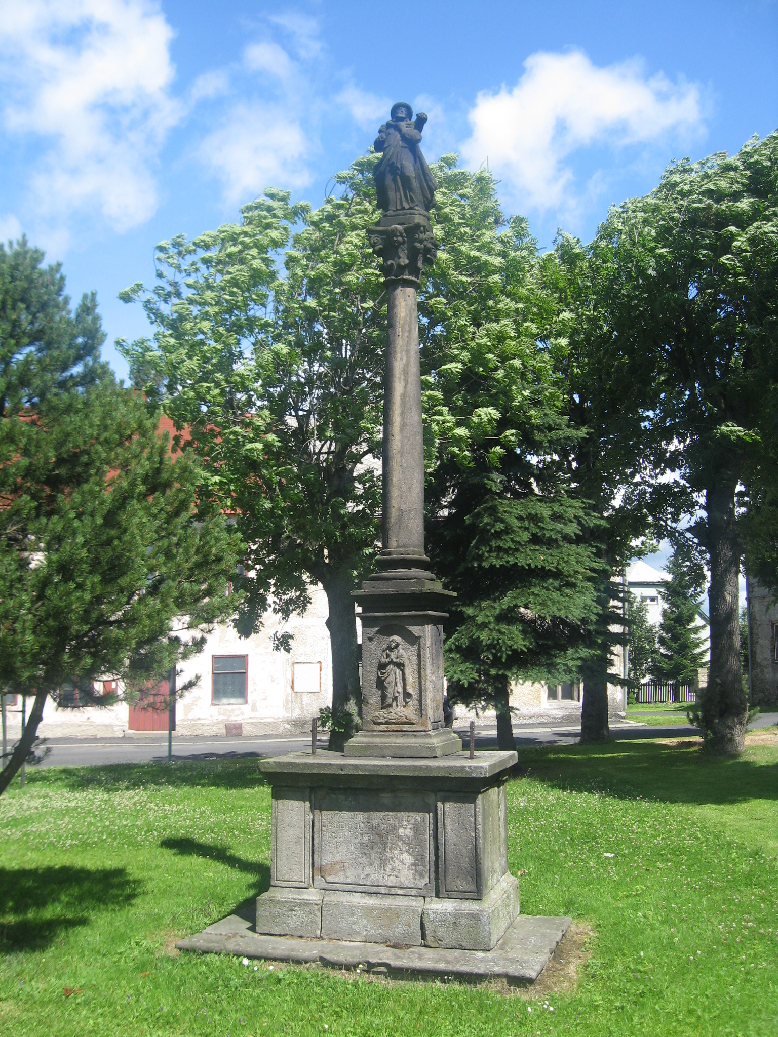 Hora svatého Šebestiána (Czech Republic) - Statue of St. Christopher from Rusová.